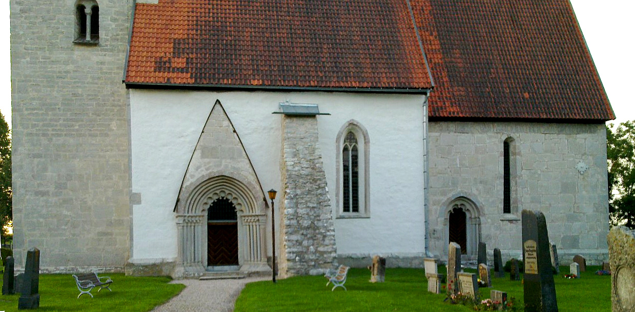 Church of Vänge, Gotland, SE